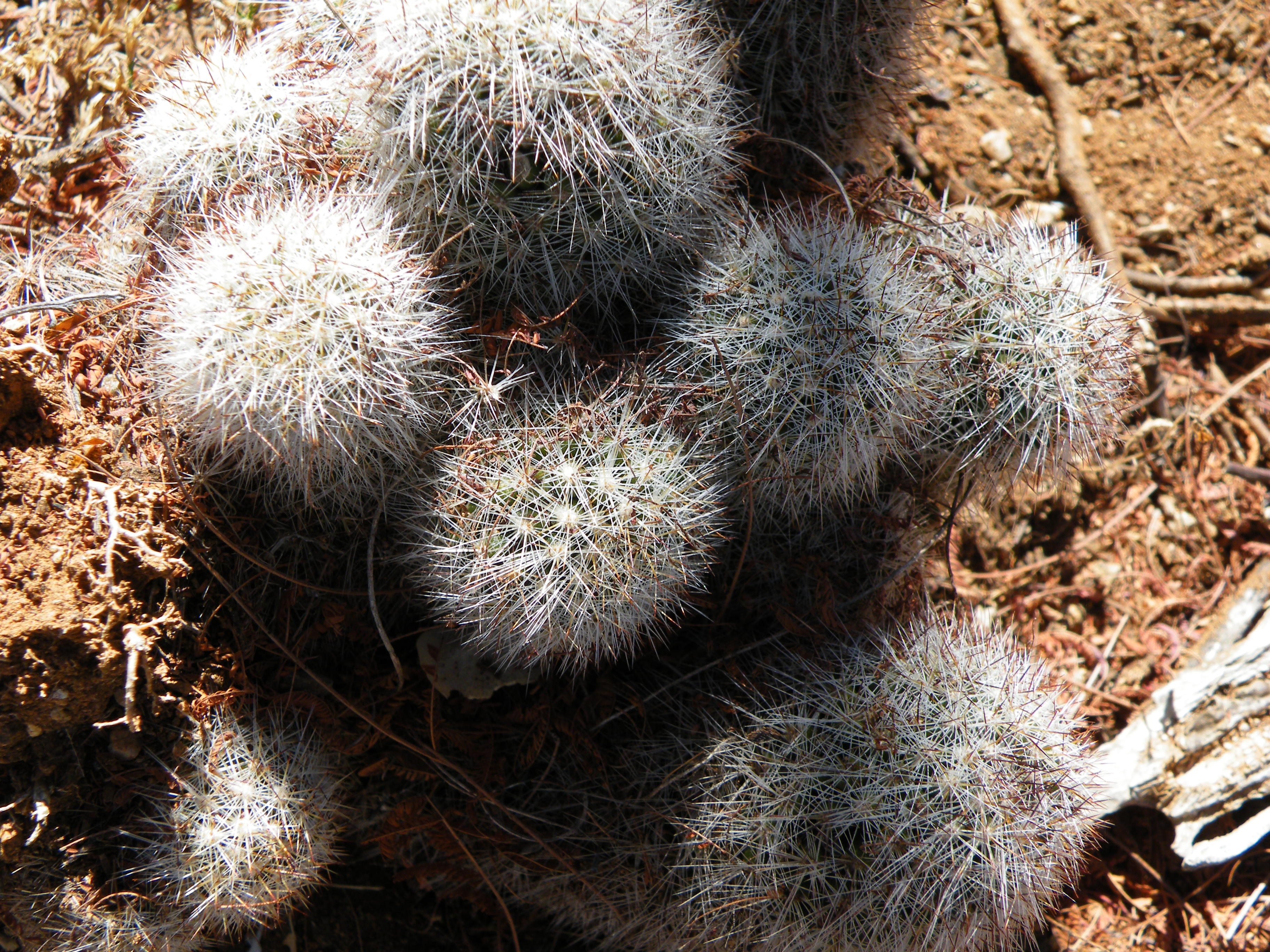 El Triunfo, South Baja California